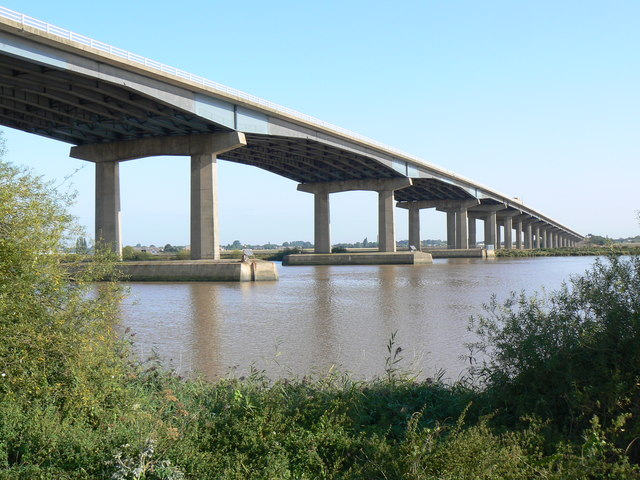 Ouse Motorway Bridge, East Riding of Yorkshire, England.M62 motorway bridge over the River Ouse at Howden. Viewed from the southern bank.